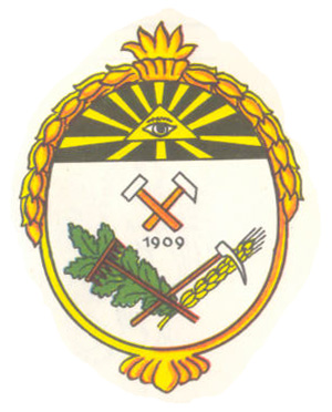 the old coat of arms of Karviná (from 1909)